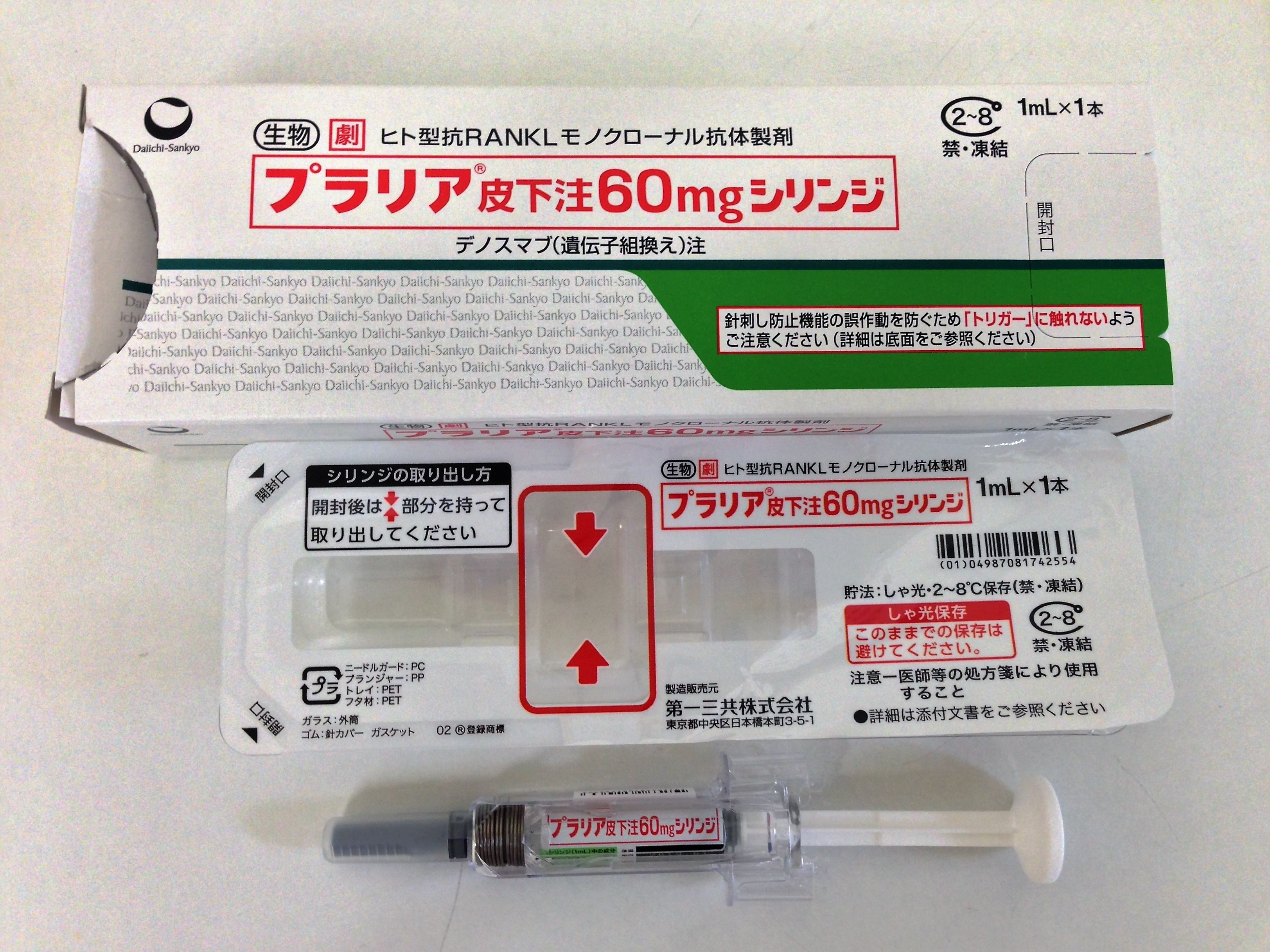 A humanized monoclonal antibody and an inhibitor of the RANK LIGAND, which regulates OSTEOCLAST differentiation and bone remodeling. It is used as a BONE DENSITY CONSERVATION AGENT in the treatment of OSTEOPOROSIS.